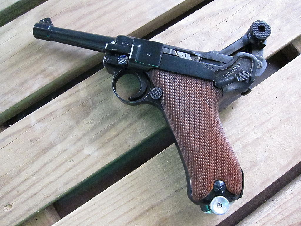 A P-08, BYF-41, 1941, 9x19mm caliber Parabellum Luger Mauser pistol - with the safety on, and with breech opened, showing the jointed arm in its most bent and locked position